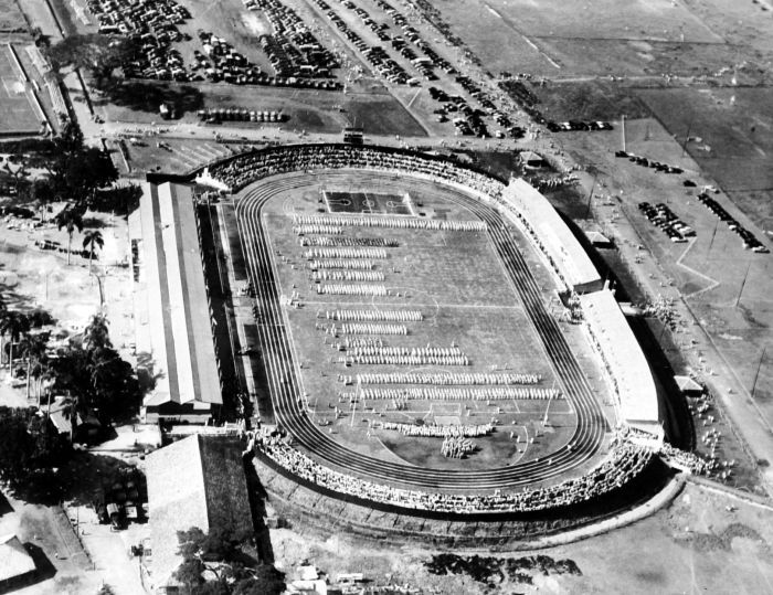 Aerial photograph of Ikada Stadium during the opening ceremonies of the 2nd Indonesian National Games (Pekan Olahraga Nasional) in Jakarta. The stadium was constructed for this event but was demolished following the 1962 Asian Games to make way for construction of the National Monument (Monas).